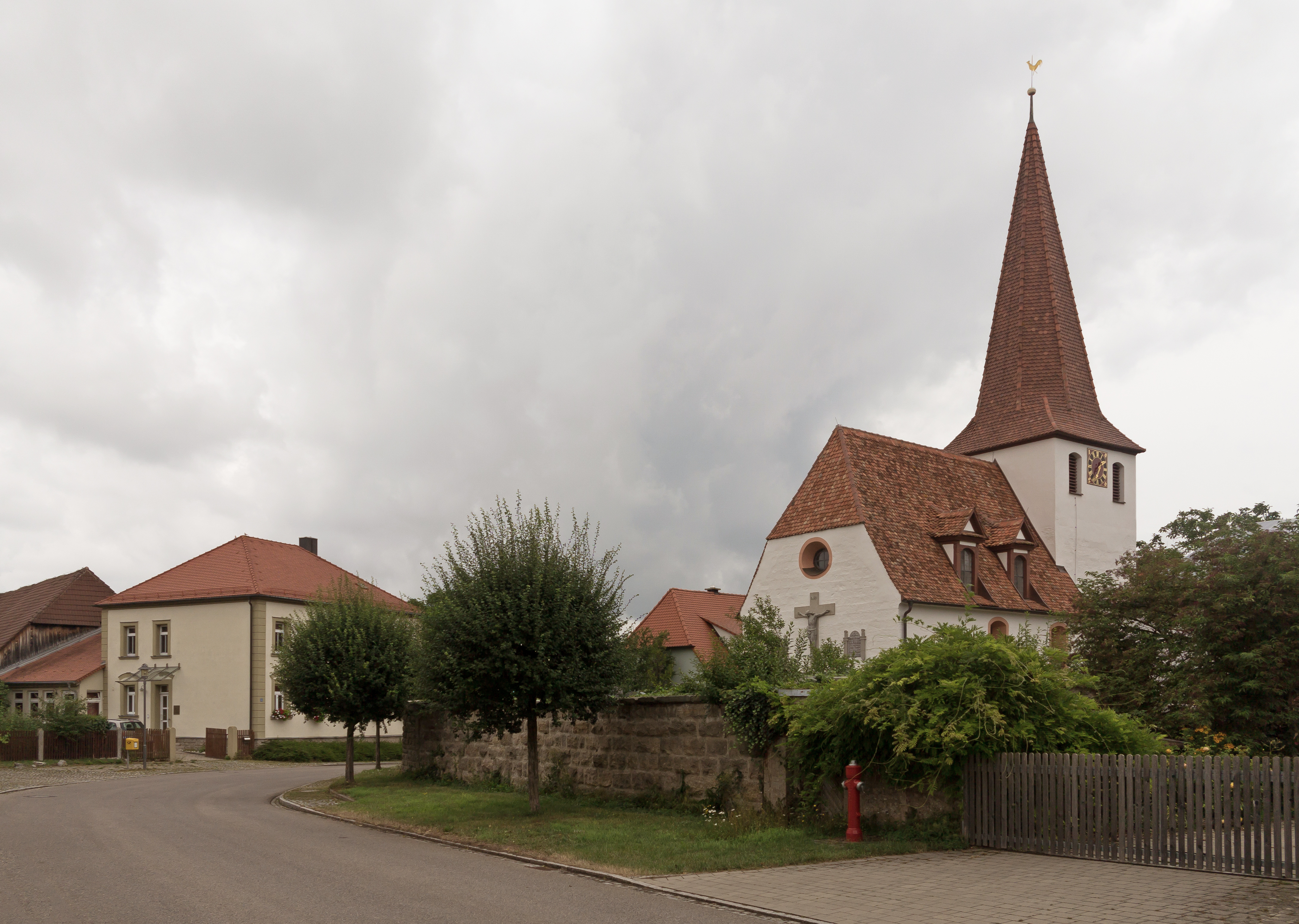 Urfersheim, church: die evangelisch-lutherische Pfarrkirche Sankt BartholomäusThis is a photograph of an architectural monument.